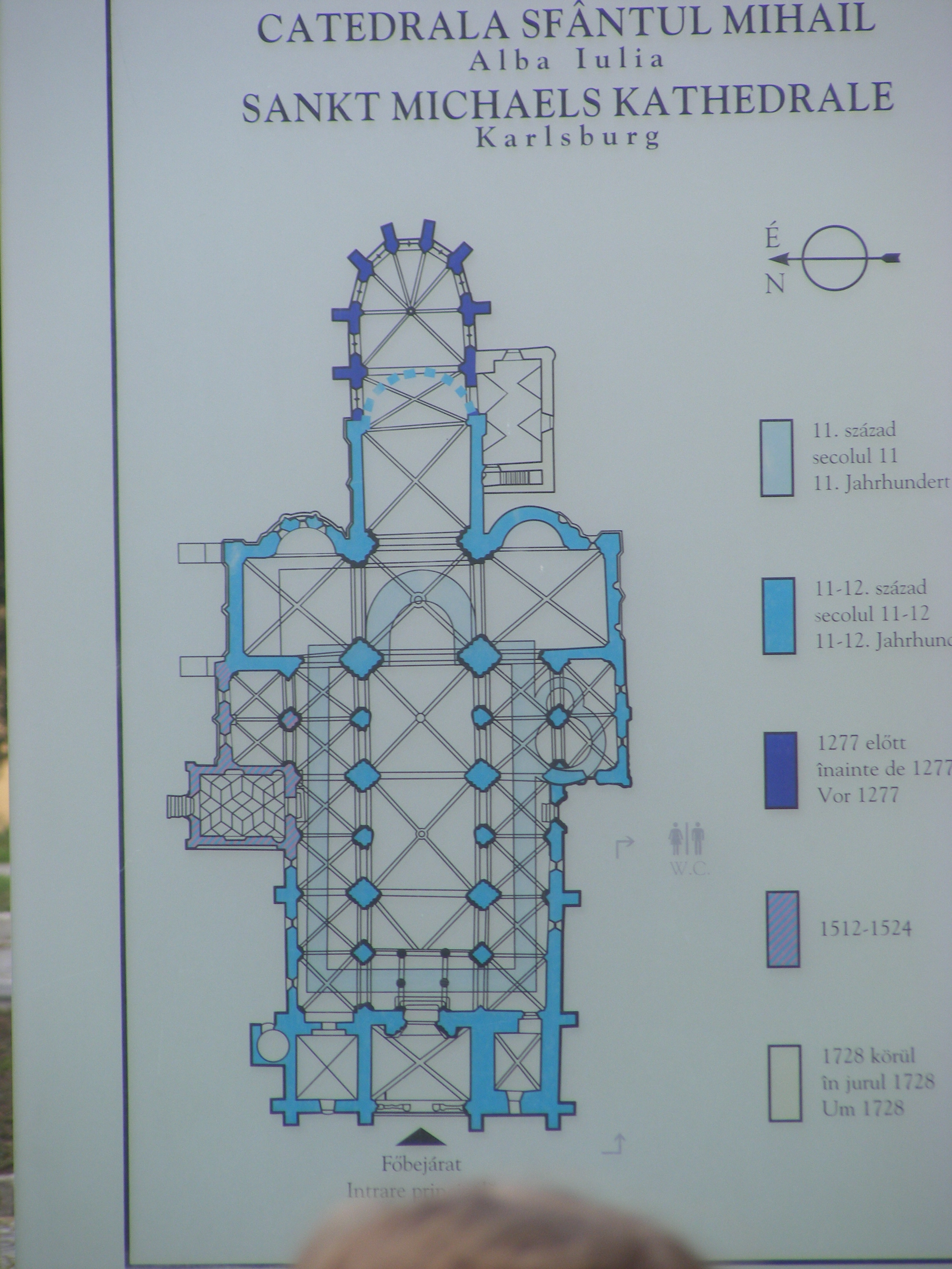 The romano-catholic church's layout in Gyulafehérvár (Alba Iulia), on a placard